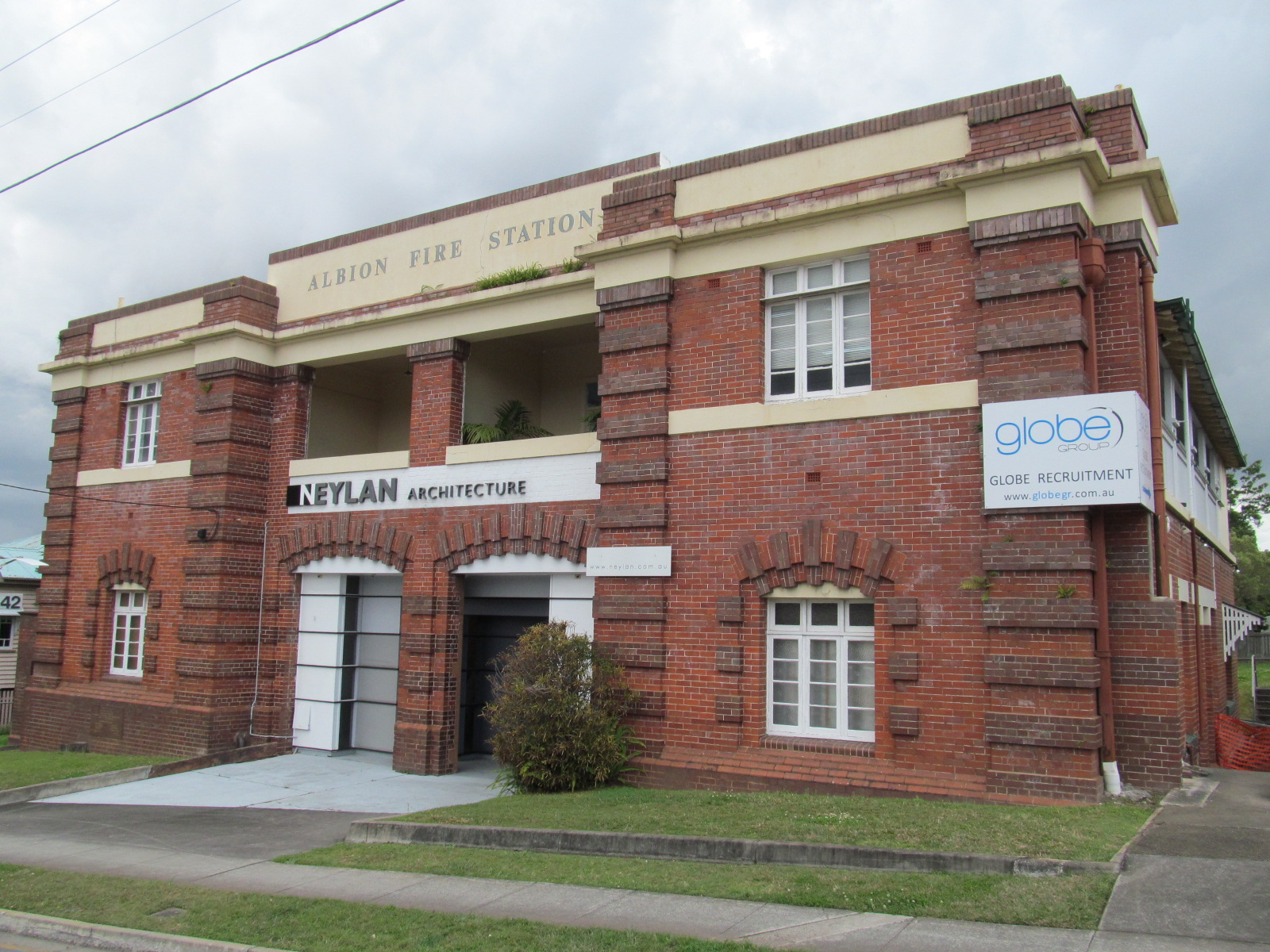 Old fire station in Albion, Queensland, now used as a business premises.